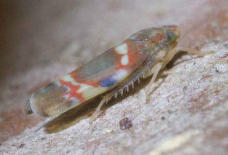 Erythroneura vitis, Grapevine Leafhopper, Size: around 3 mm, ID Confidence: 88